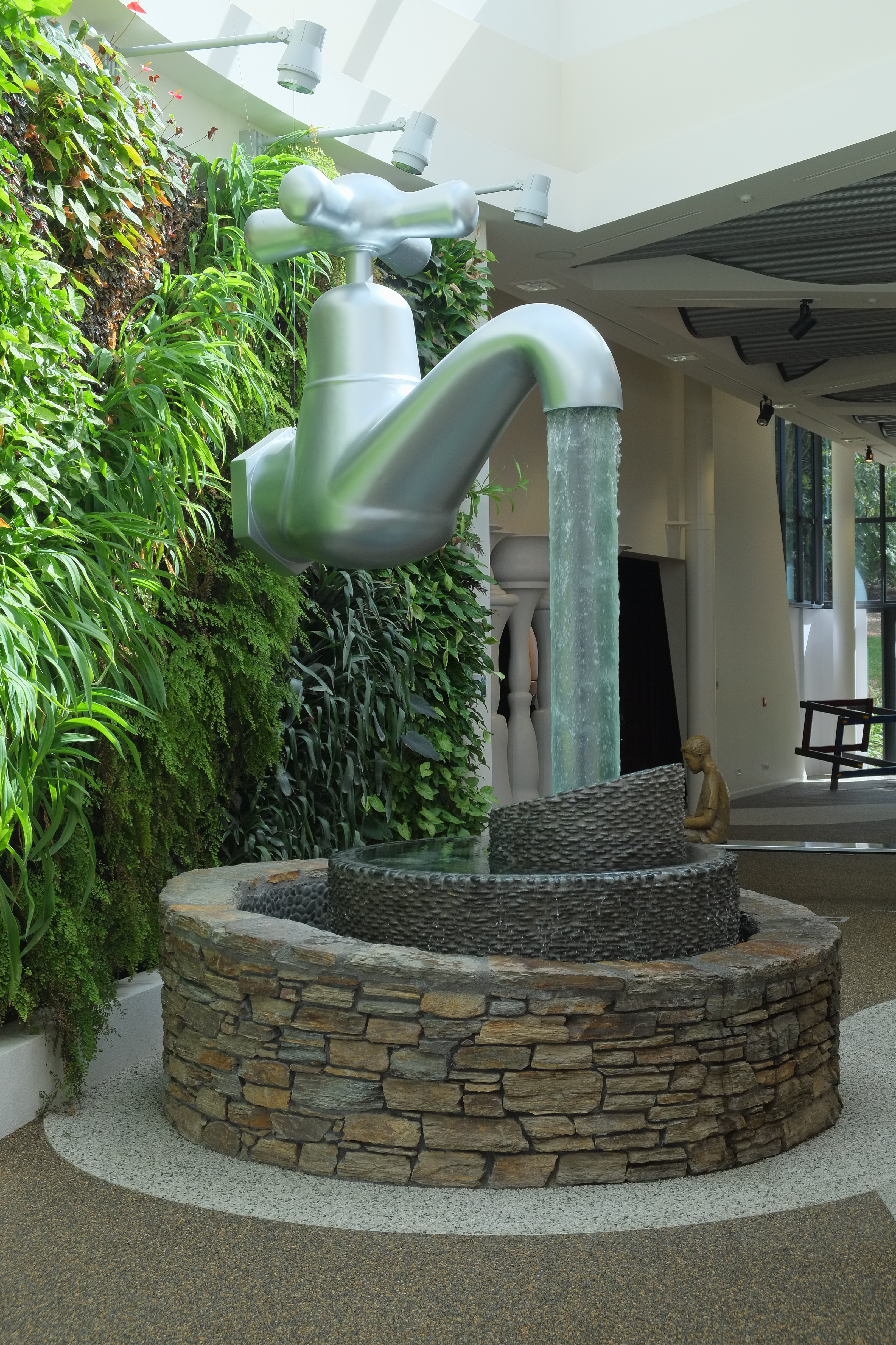 Water fountain in Sculptillusion Gallery in Stuart Landsborough's Puzzling World